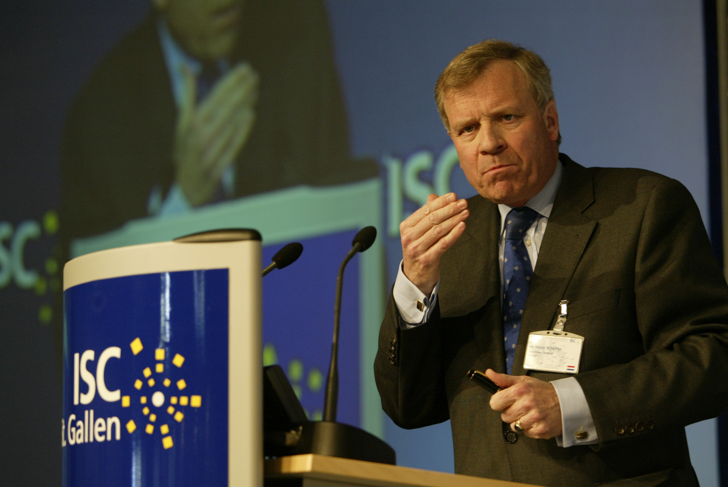 Jaap de Hoop Scheffer in May 2005 at the 35. St. Gallen Symposium at the University of St. Gallen